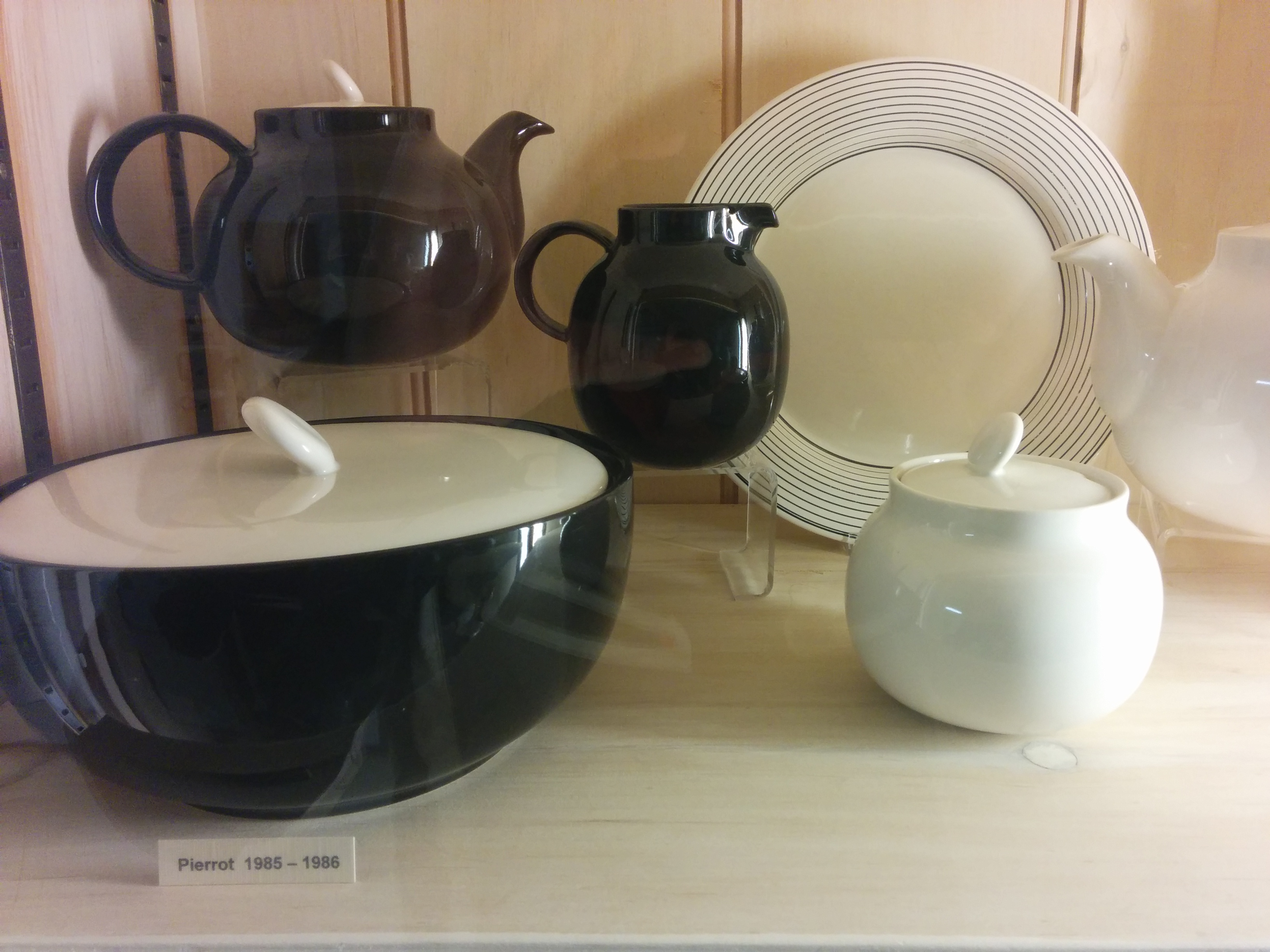 Pierrot designhornsea pottery, Hornsea, East Riding of Yorkshire, England.